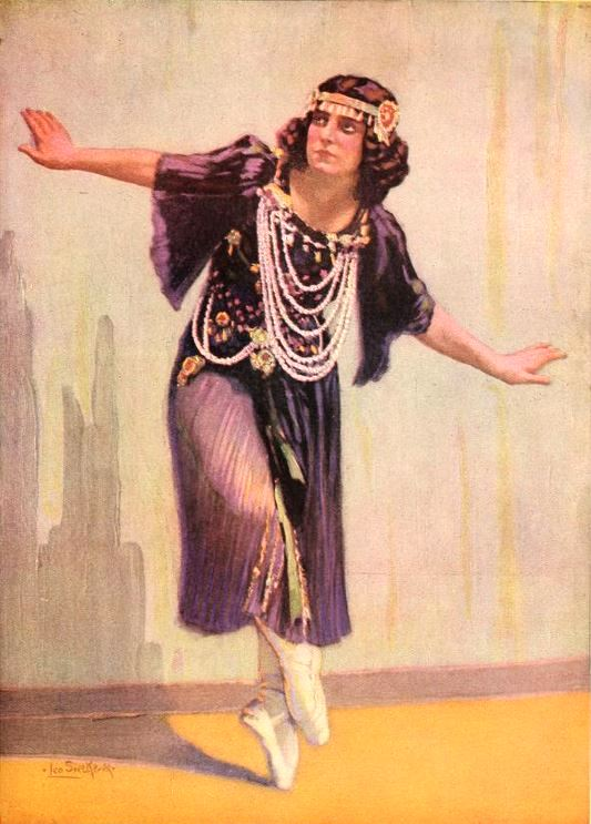 Dancer Rosina Galli on page 20 of the February 1920 Shadowland.